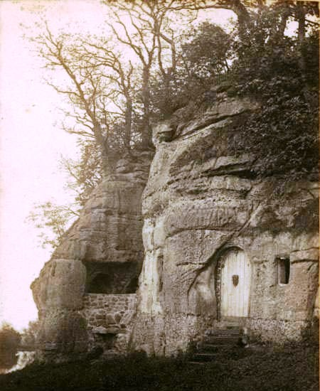 Anchor Church at Ingleby in Derbyshire in 1895 showing the door added by the Burdetts of Foremarke Hall